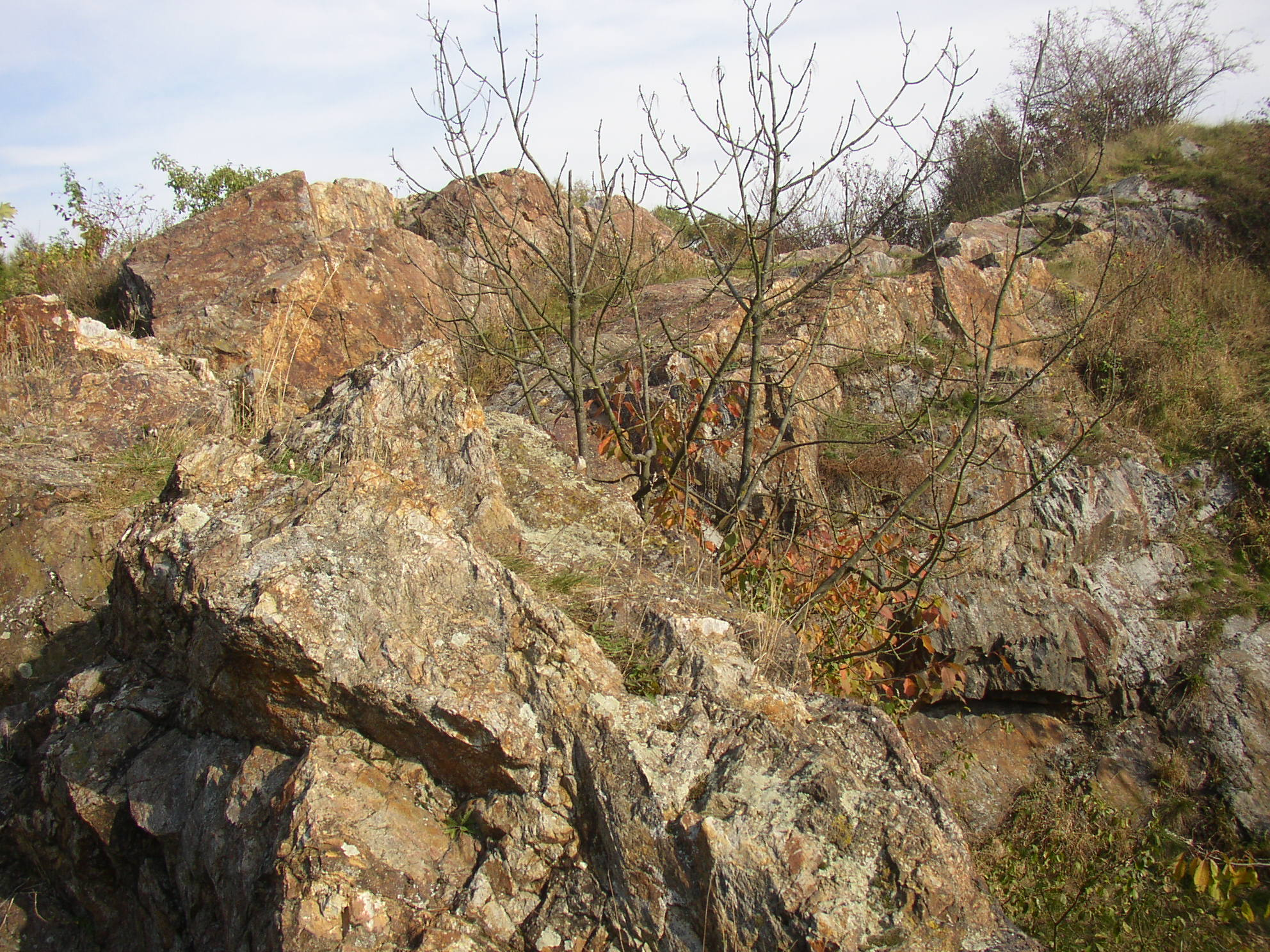 Žákova skála (a geological and paleontological site) near Běloky, Kladno District, Czech Republic.